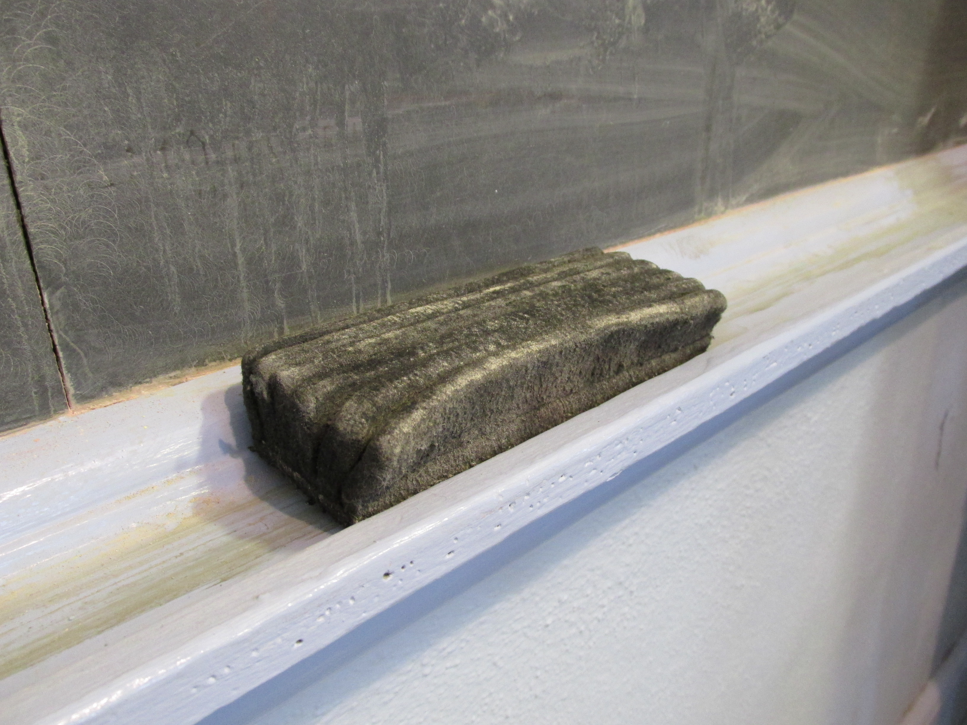 Chalkboard eraser, Waldorf School, East Lexington Massachusetts